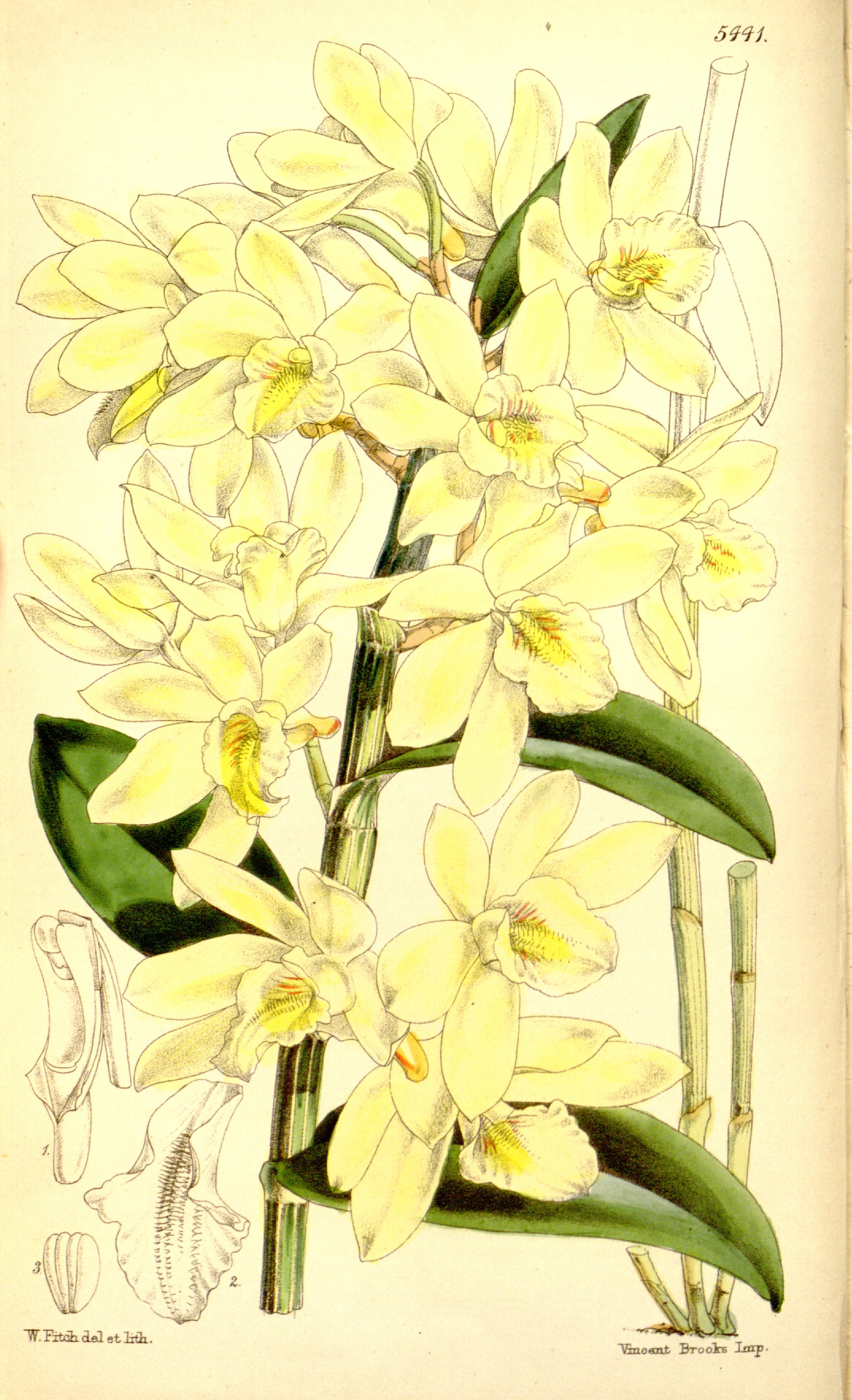 Illustration of Dendrobium luteolum